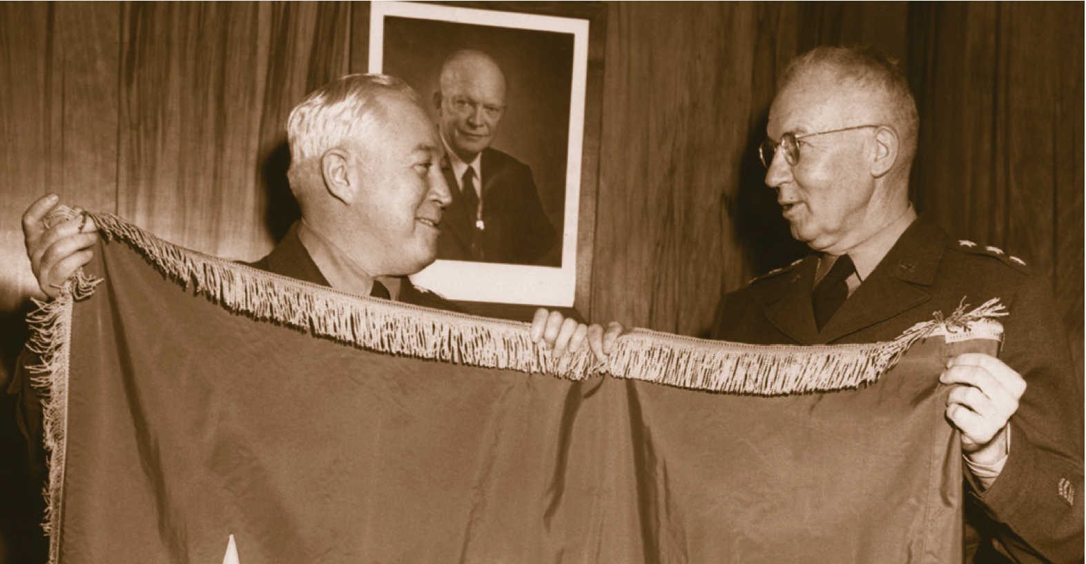 At right, Ralph J. Canine, first Director of the National Security Agency accepting a flag from George A. Horkan, Quartermaster General, United States Army